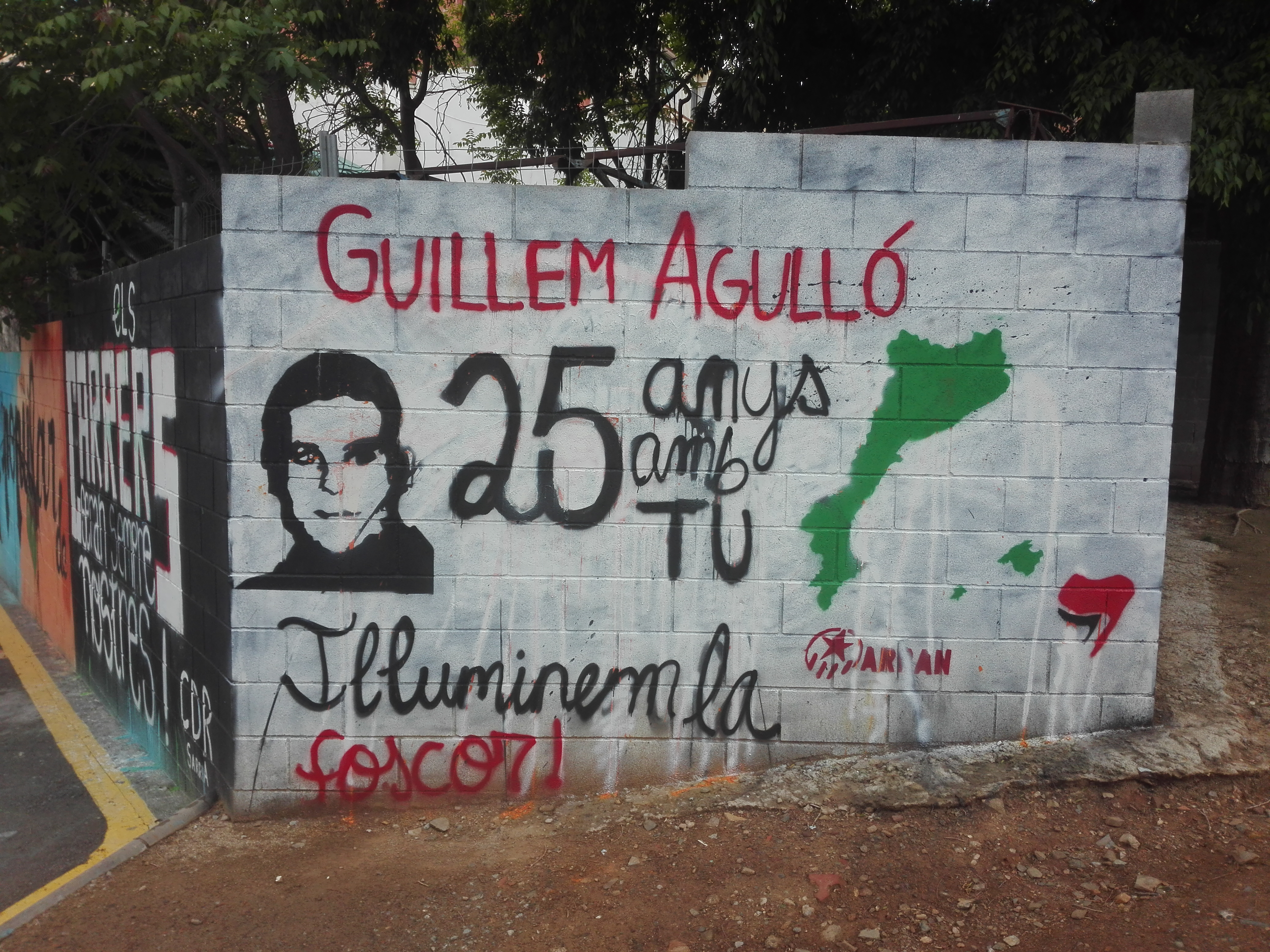 Mural from the local section of the youth revolutionary organization Arran, in the neightbourhood of Sarrià in Barcelona, commemoration the 25 years of the assassination of Guillem Agulló, antifascist youngster from Burjassot (l'Horta Nord).